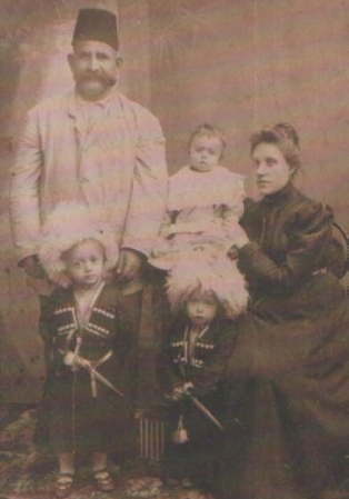 Hamshenis baker Sherif Gulaboglu and his family in Russia 1905